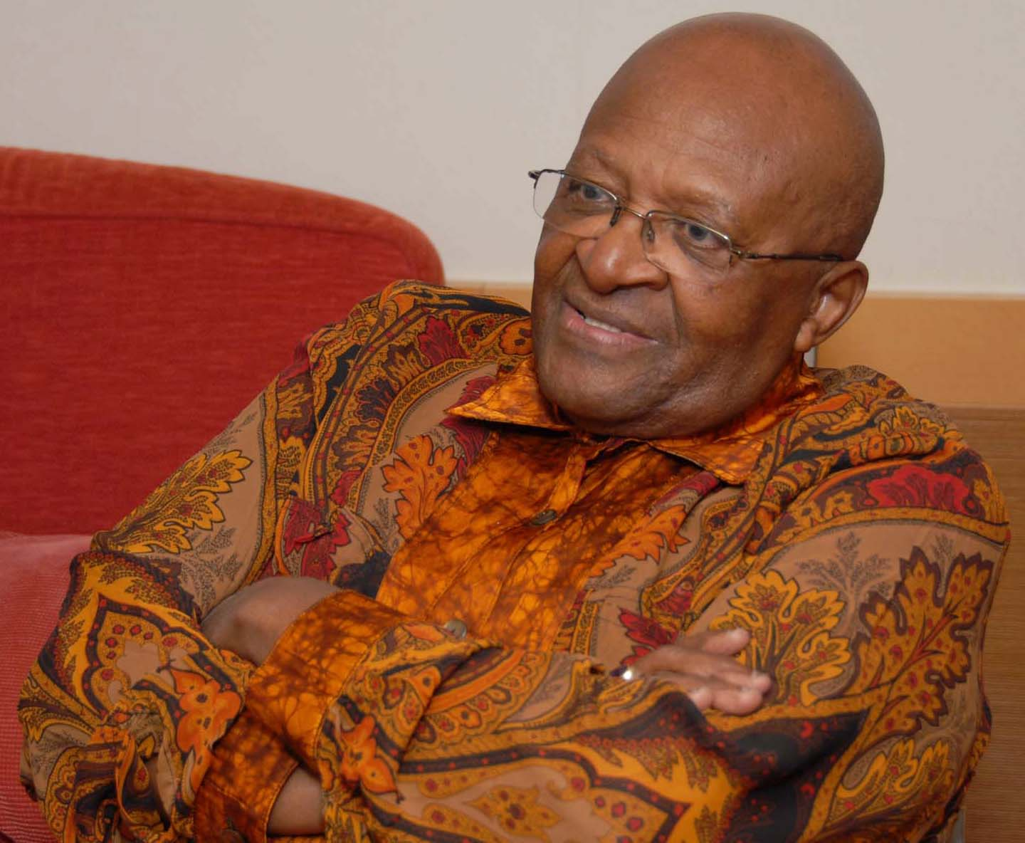 Desmond Tutu in San Diego, California in December 2010.